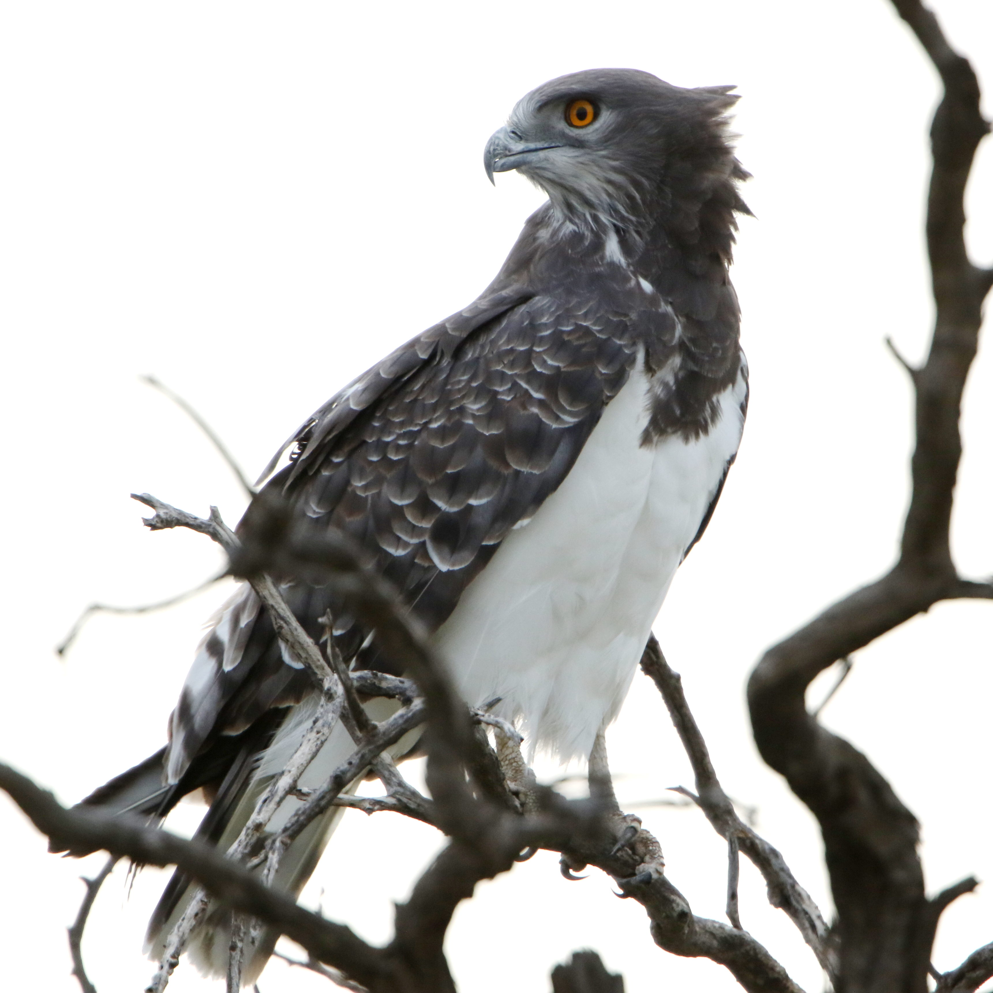 Black-chested snake eagle